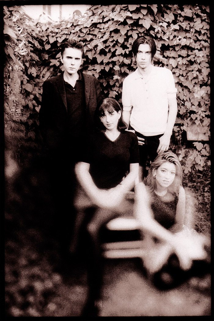 Photograph of the dreampop / shoegazer band Lush. Author / Photographer: myself, Beth Herzhaft. Taken in my back yard in the early 1990's, in Los Angeles, CA.